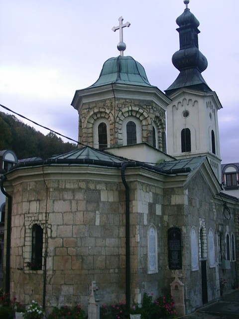 Tavna orthodox monastery near Bijeljina (16th century), Republika srpska, BiH